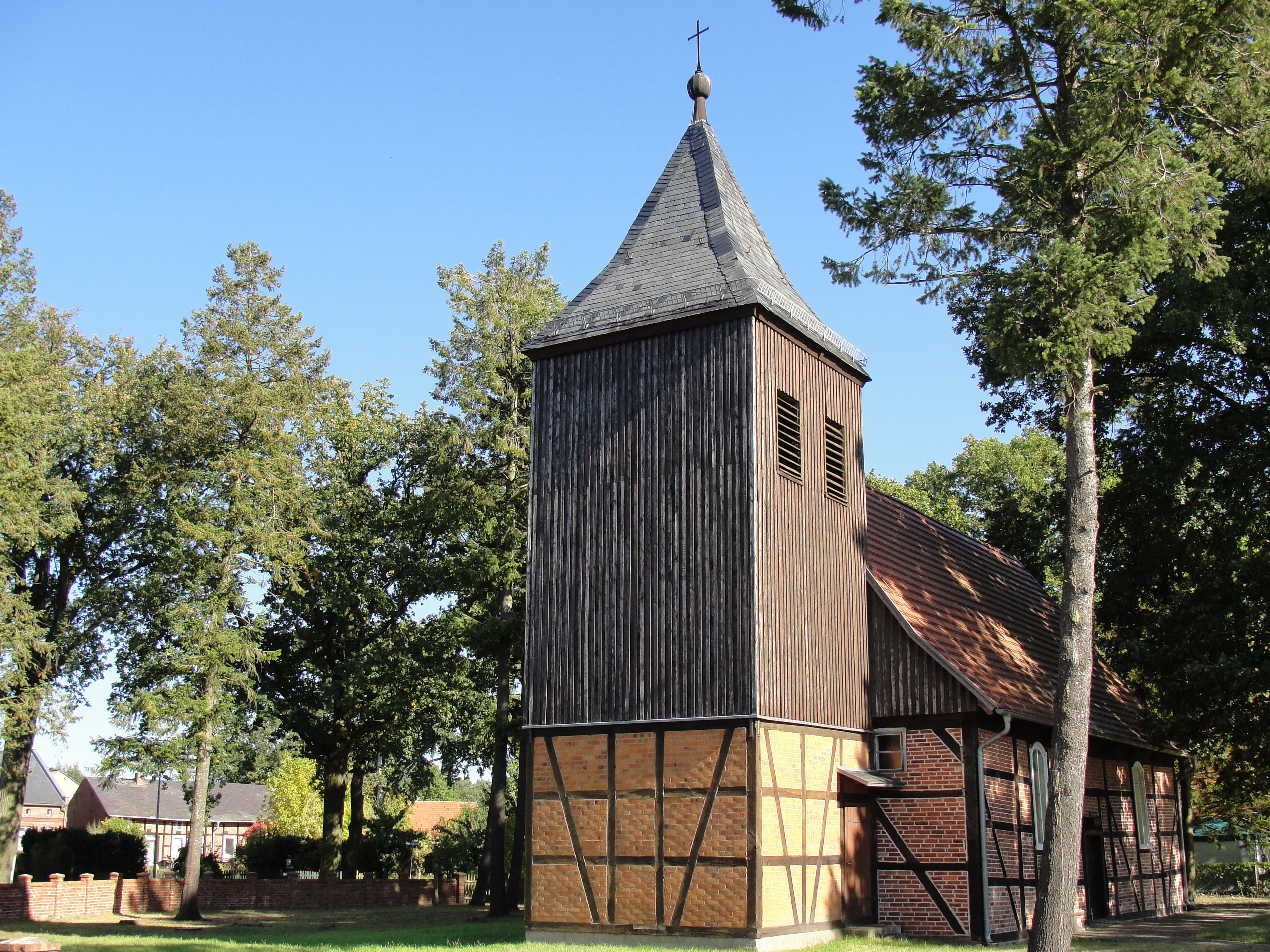 Church in Wentdorf, Brandenburg.